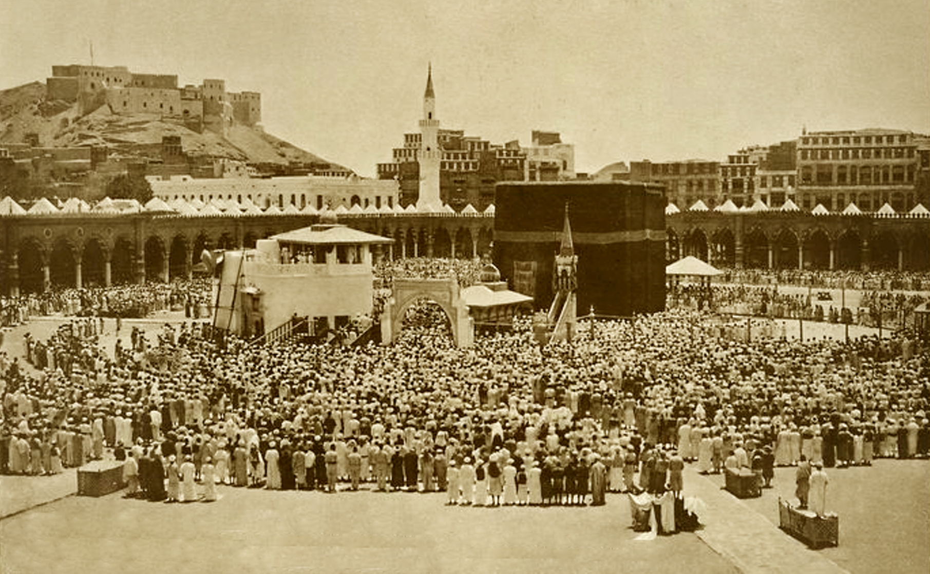 Mecca, S.Arabia 1889